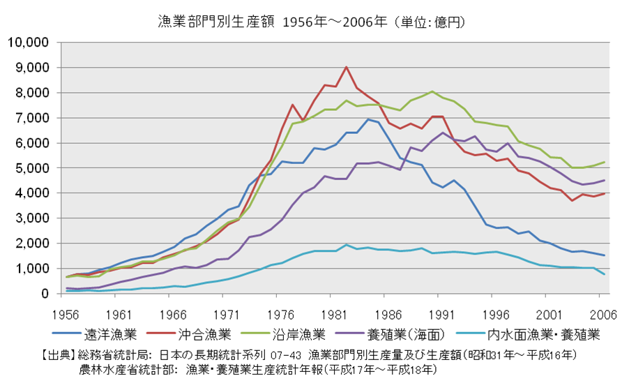 Value_of_Catches_by_Sector_of_Fisheries_in_Japan (1956 - 2006)